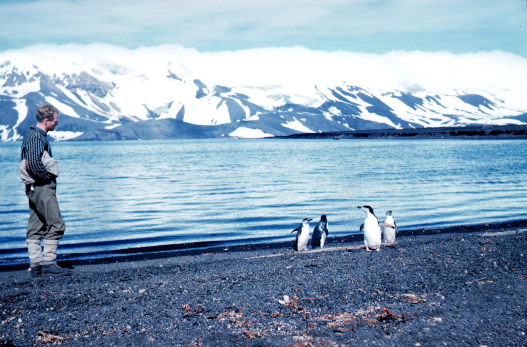 Penguins on Deception Island, Antarctica